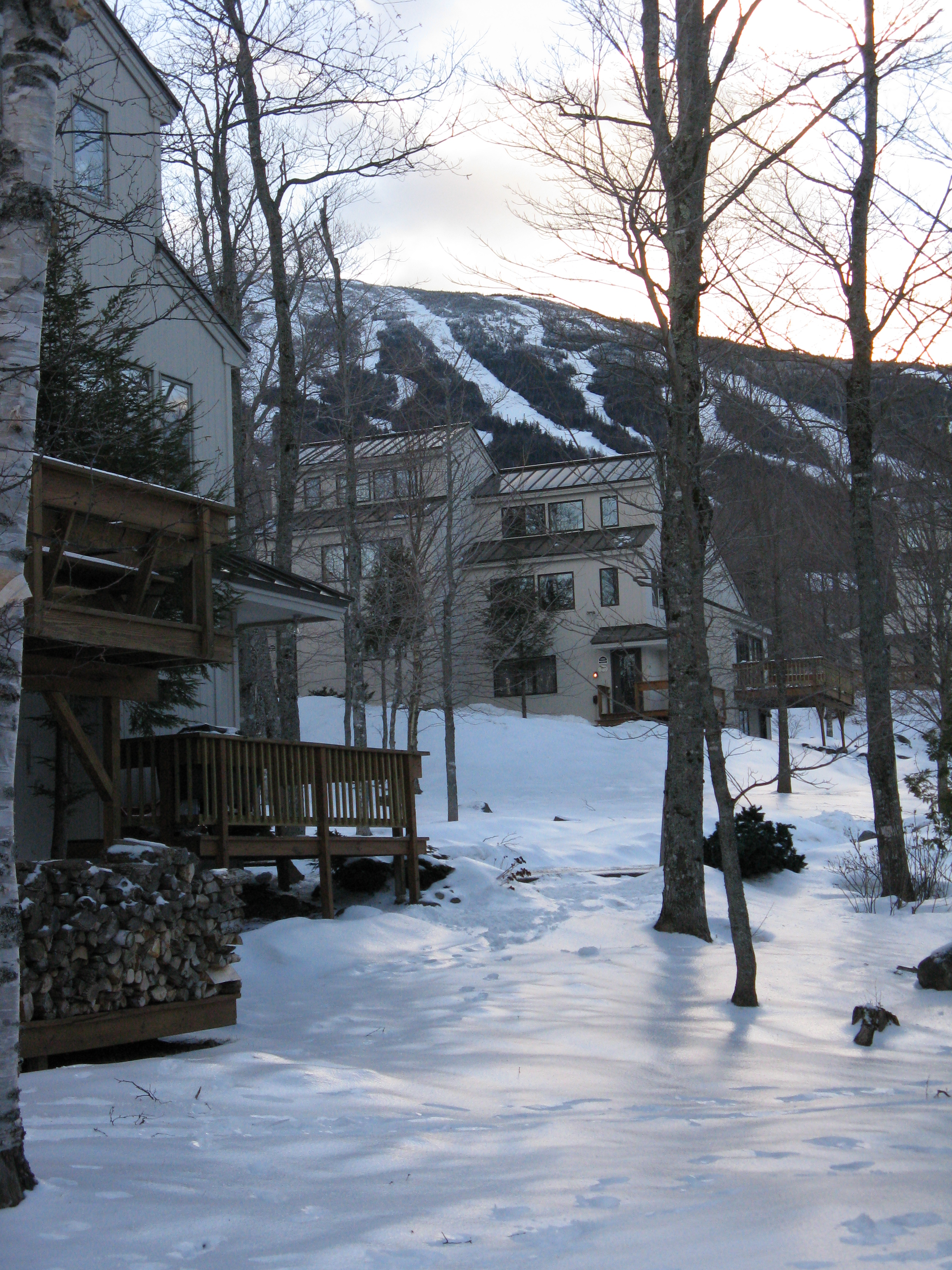 Sugarloaf Condos